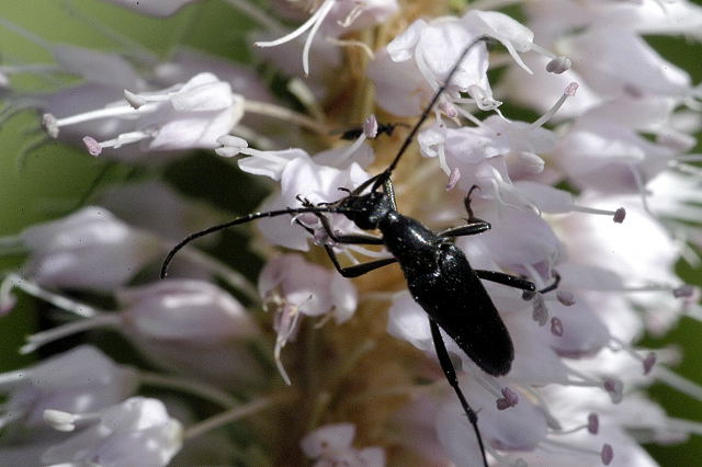 Picture taken in Commanster, Belgian High Ardennes . Species: Stenurella nigra